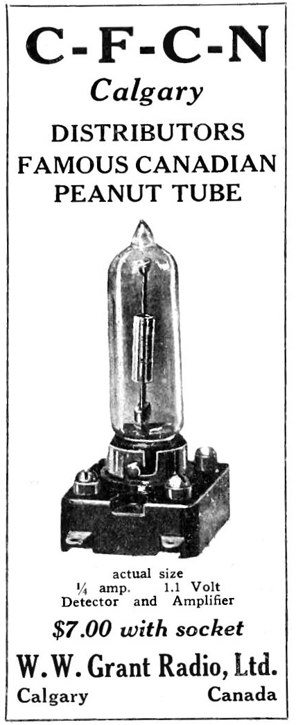 W. W. Grant sold radio equipment in Calgary, Alberta Canada and also founded, in 1922, radio station CFCN